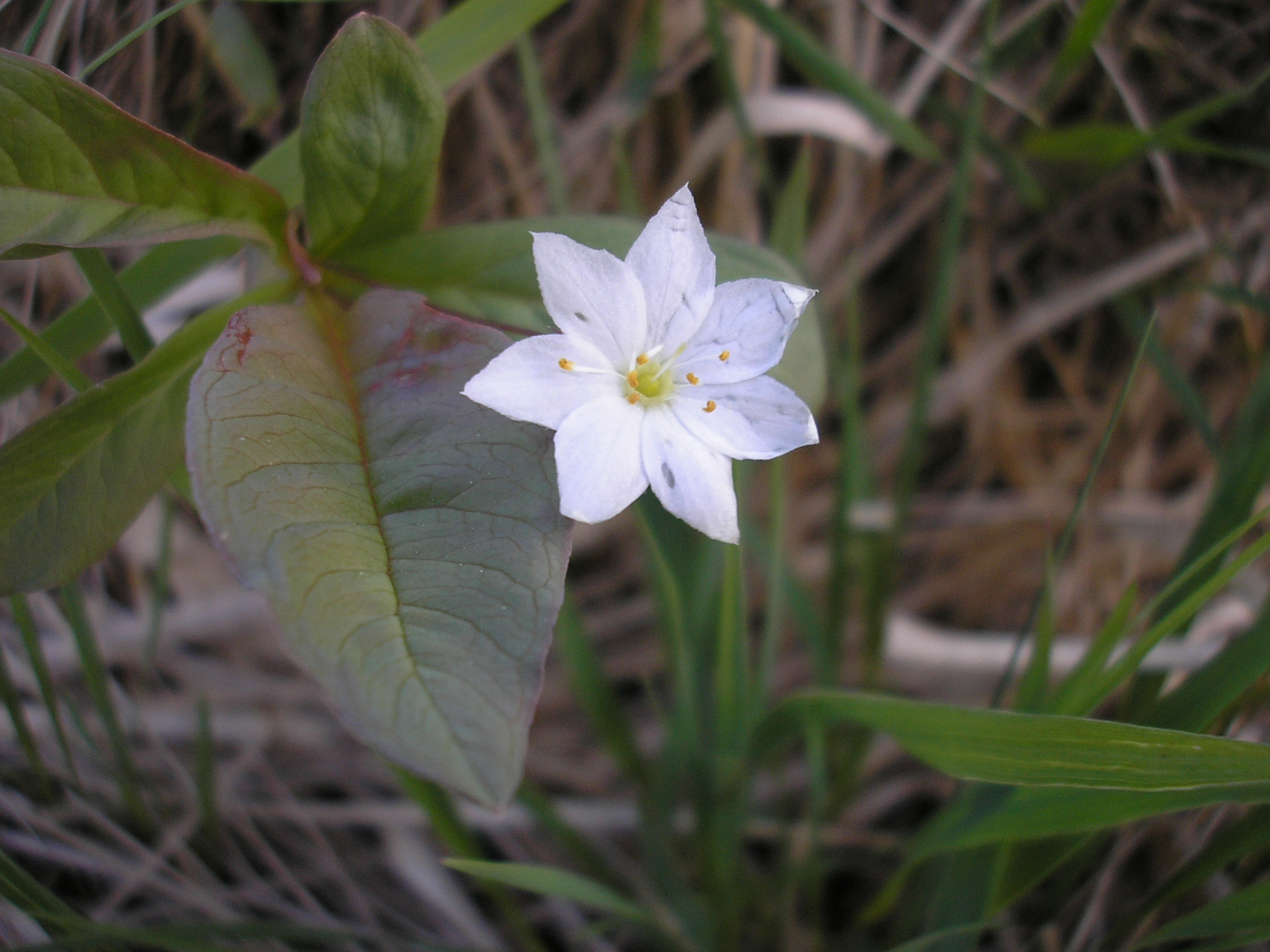 Chickweed wintergreen (Trientalis europaea), Polleurvenn, Waimes, East Belgium